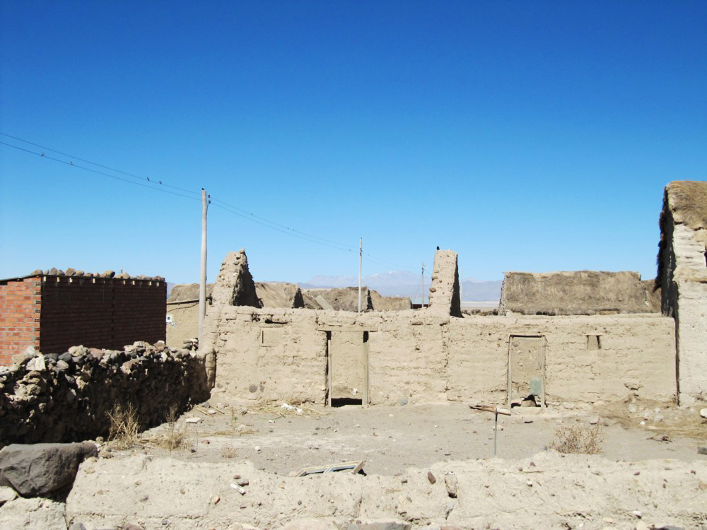 Villa Vitalina houses